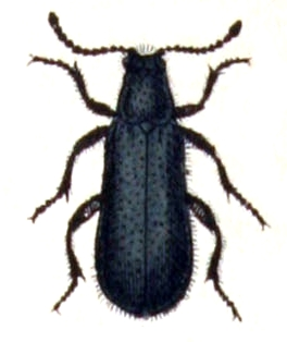 Dasytes caeruleus, from Calwer's Käferbuch, Table 28, Picture 2. Taxonomy was updated to 2008, using mostly the sites Fauna Europaea and BioLib. Please contact Sarefo if the determination is wrong!